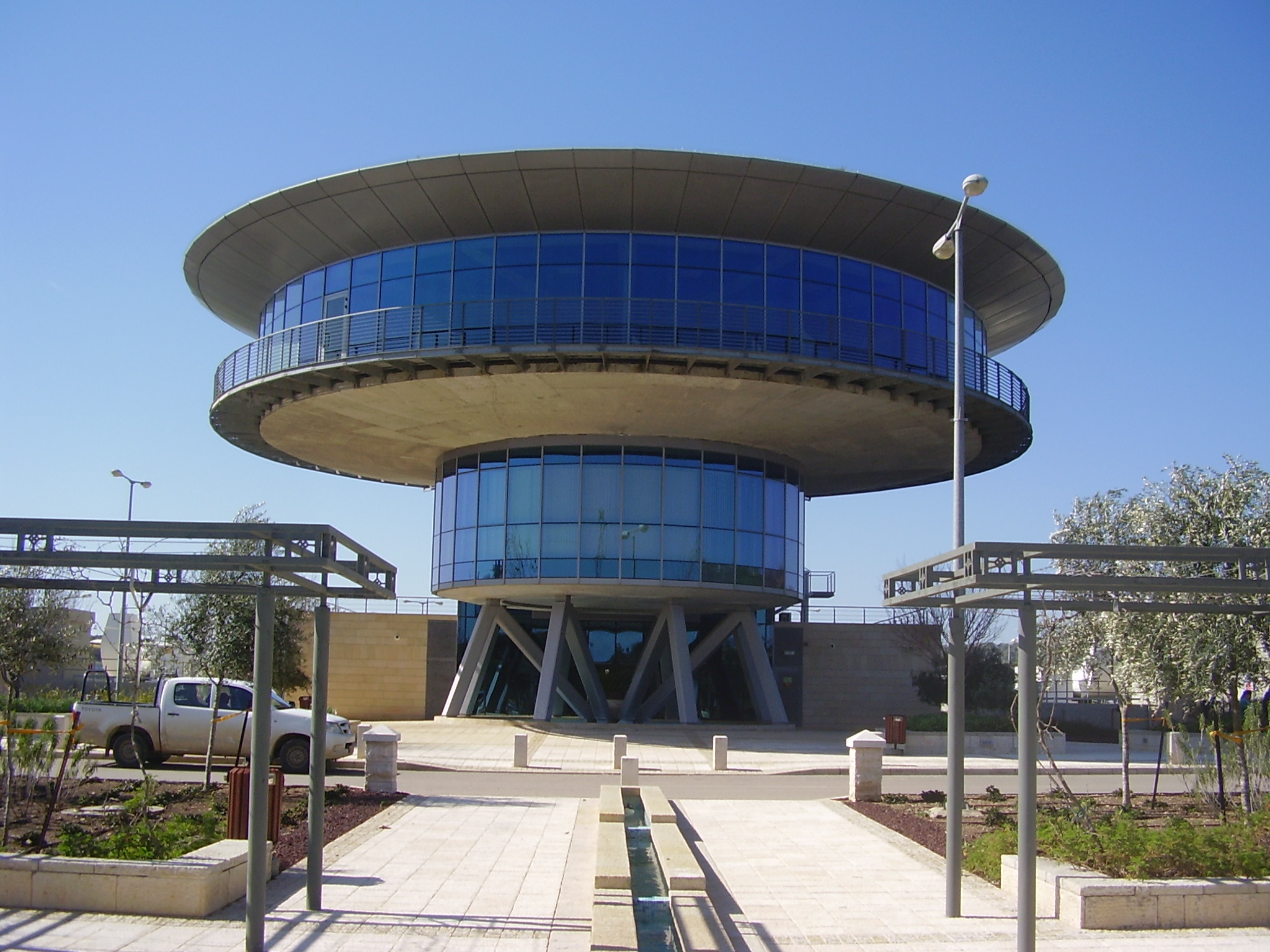 Visitor Center in Eshkol Lake, Israel